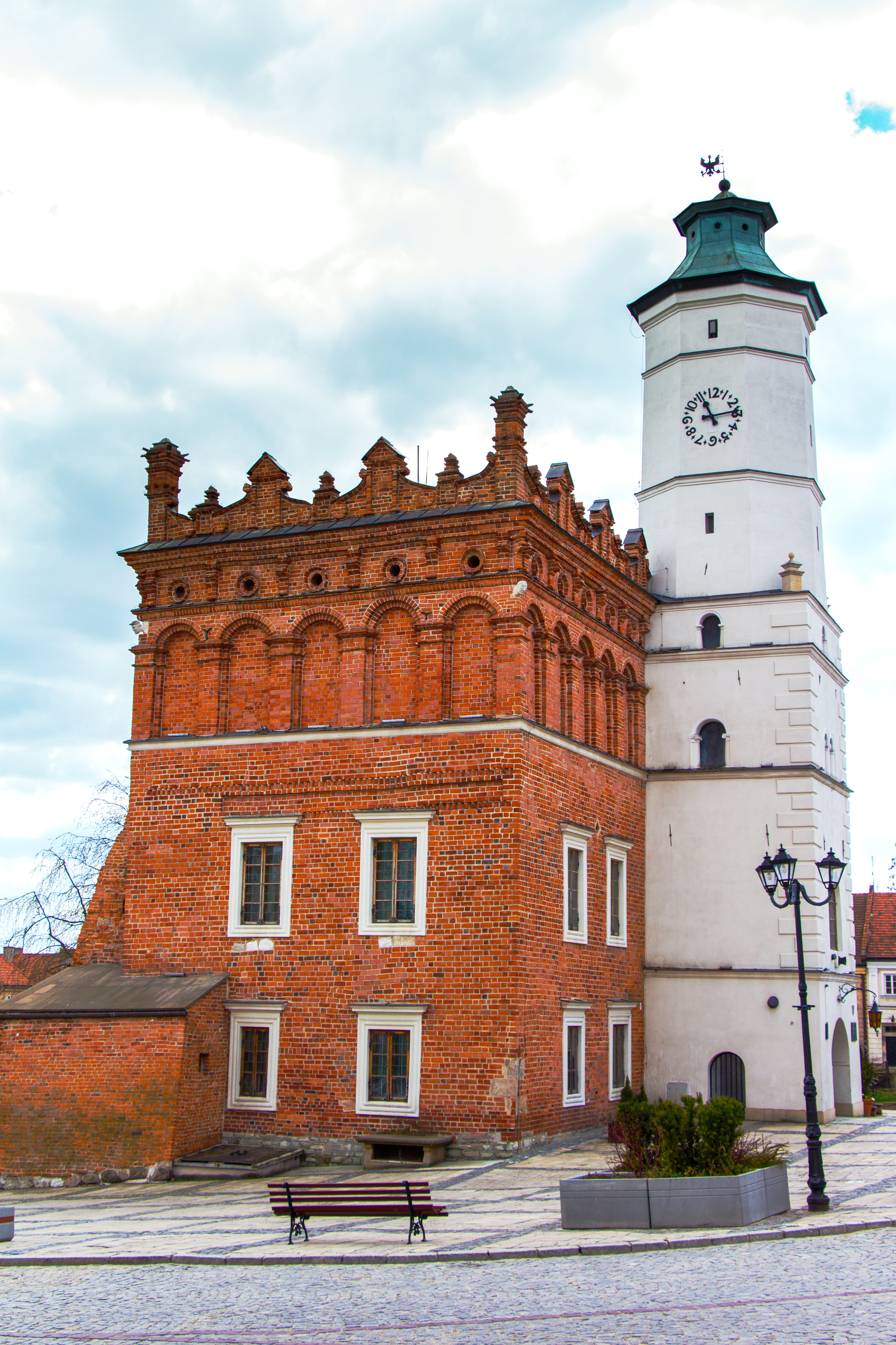 Sandomierz Town Hall 2015